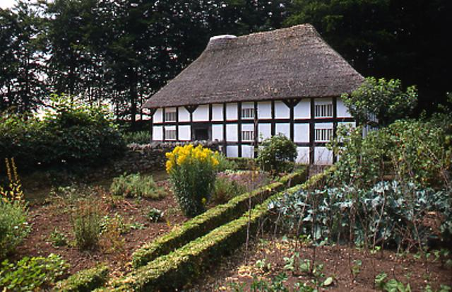 Exterior view of Abernodwydd Farmhouse at St Fagans: National History Museum